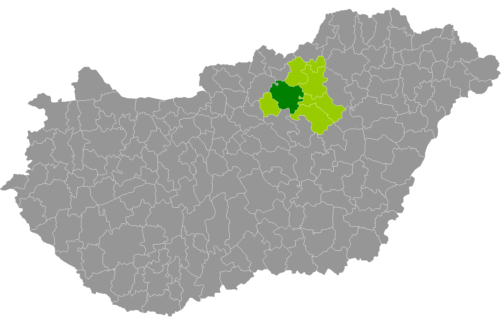 Location of Gyöngyös District, Heves, Hungary